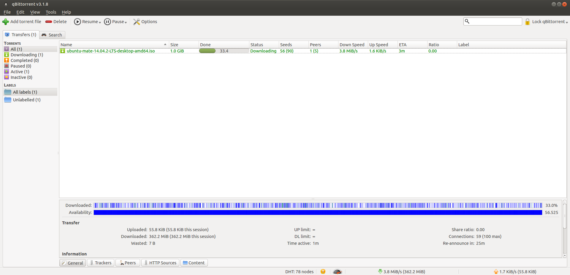 A screenshot of qBittorrent v3.1.8 running under Ubuntu MATE